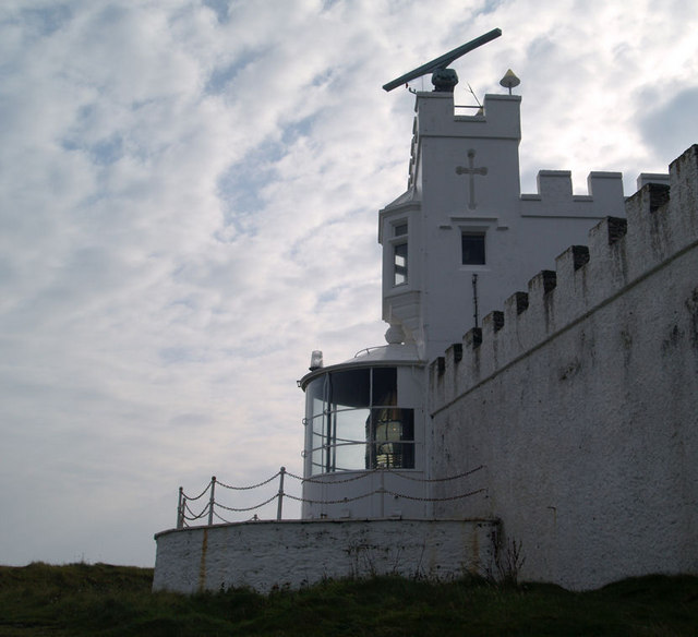 Point Lynas lighthouse Trinity House working light establsihed 1779 automated 1989.